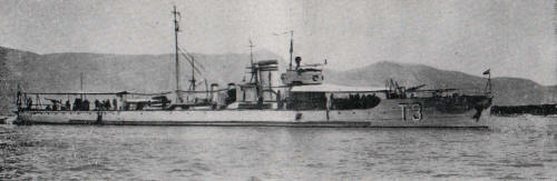 A black and white photograph of the Yugoslav torpedo boat T3 underway